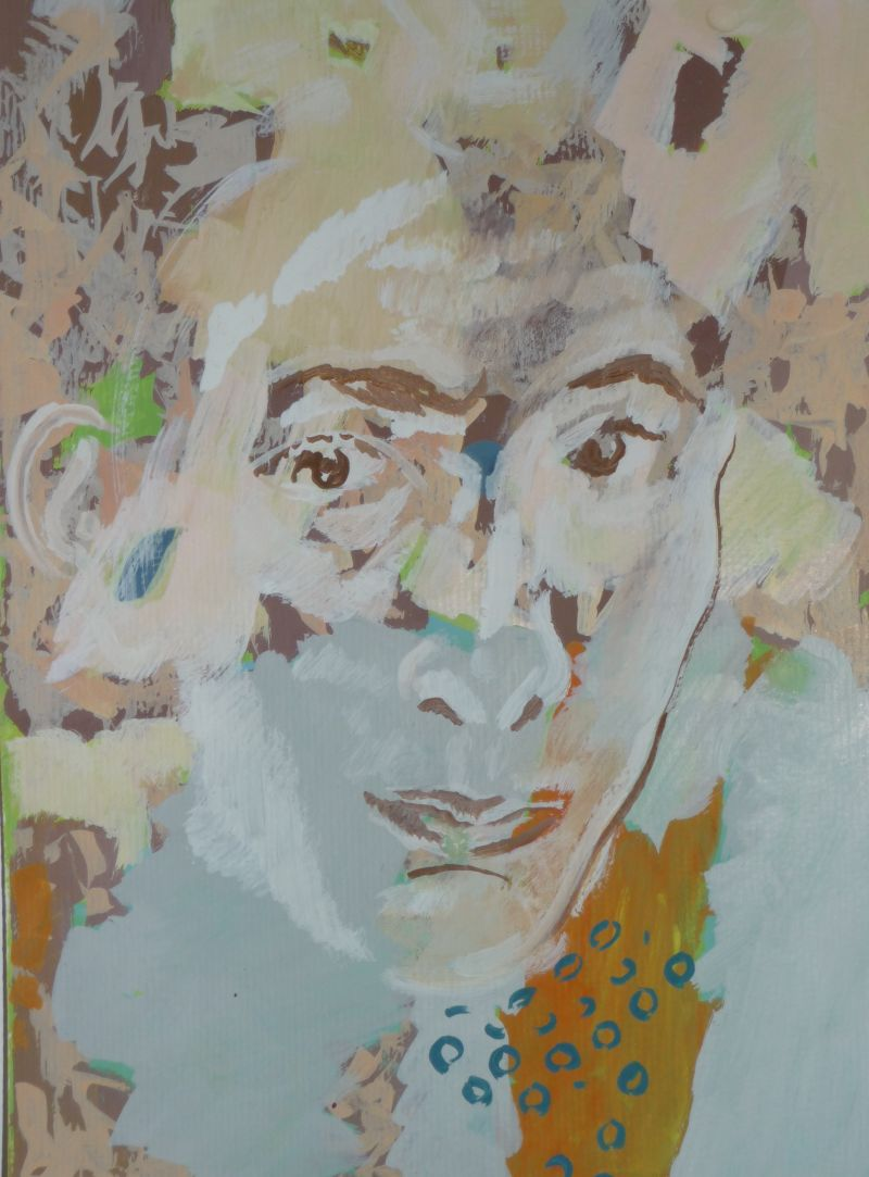 Katrin Roeber, Self-portrait, Gouache, 29 cm x 19 cm, 2014